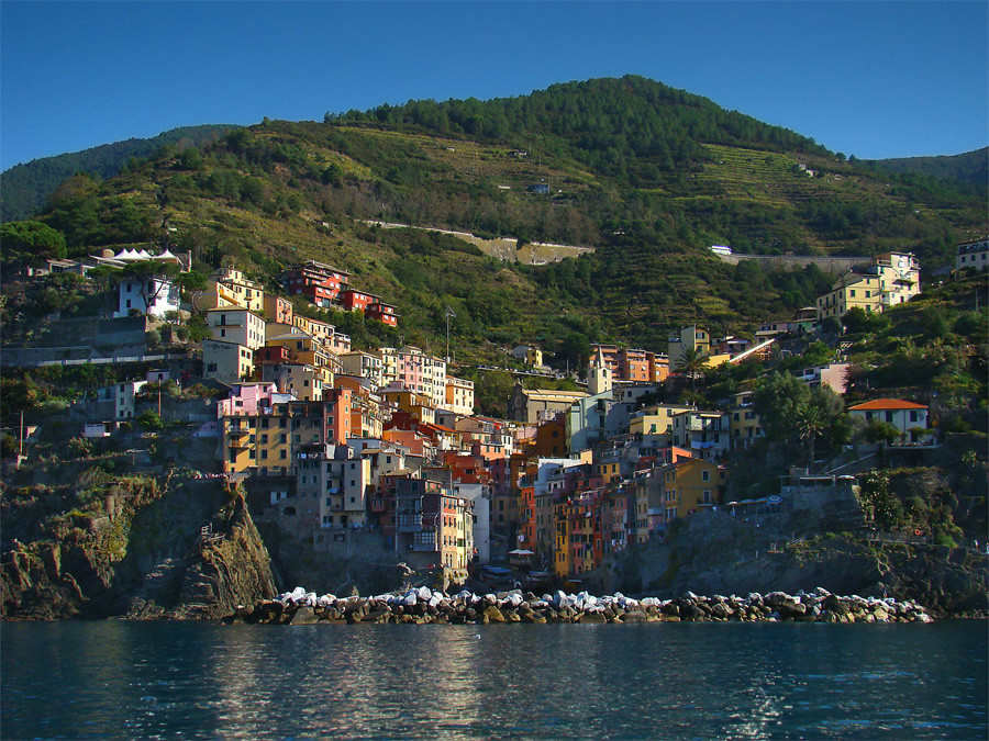 Riomaggiore, Cinque Terre, Liguria, Italy.